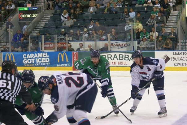 Mathieu Roy of the Florida Everblades and Ryan Murphy of the Charlotte Checkers wait for the face-off in an ECHL hockey game on 3-9-09